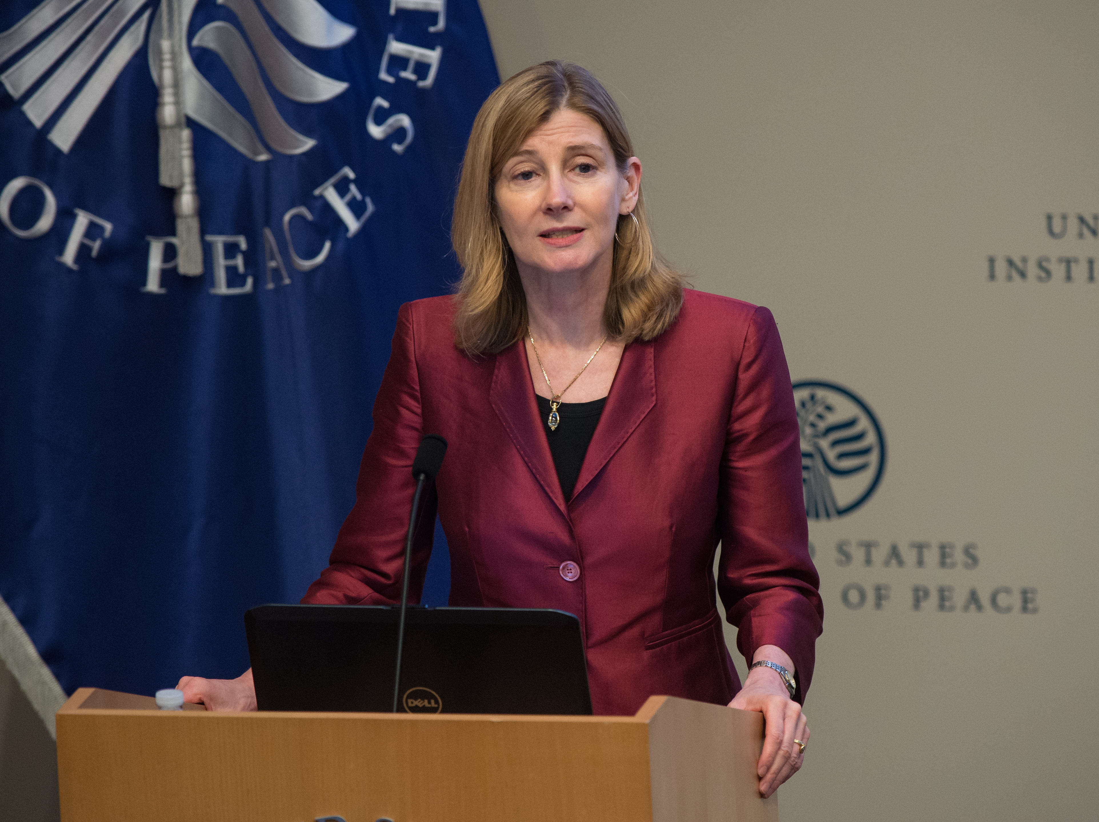 Nancy Lindborg, president, United States Institute of Peace, introduces Dr. John P. Holdren, assistant to the President for Science and Technology, to announce the launch of an international public-private partnership to help developing nations advance their climate resilience on Tuesday, June 9, 2015 at the U.S. Institute of Peace in Washington, DC. As part of this partnership, NASA has released a new Earth Exchange Global Daily Downscaled Projections (NEX-GDDP) dataset that will provide daily downscaled climate model outputs for every country in the world.